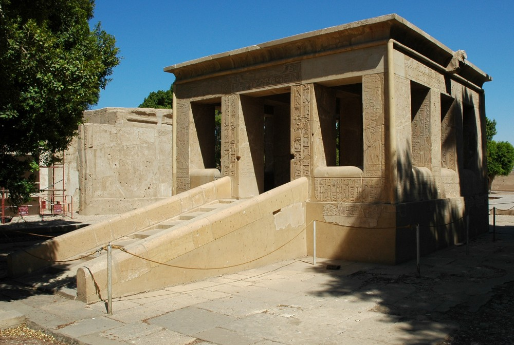 White Chapel (Chapelle blanche) of Sesostris I. at Karnak, 12th Dynasty, Open Air Museum Karnak